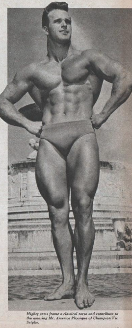 Vic Seipke, American bodybuilder.